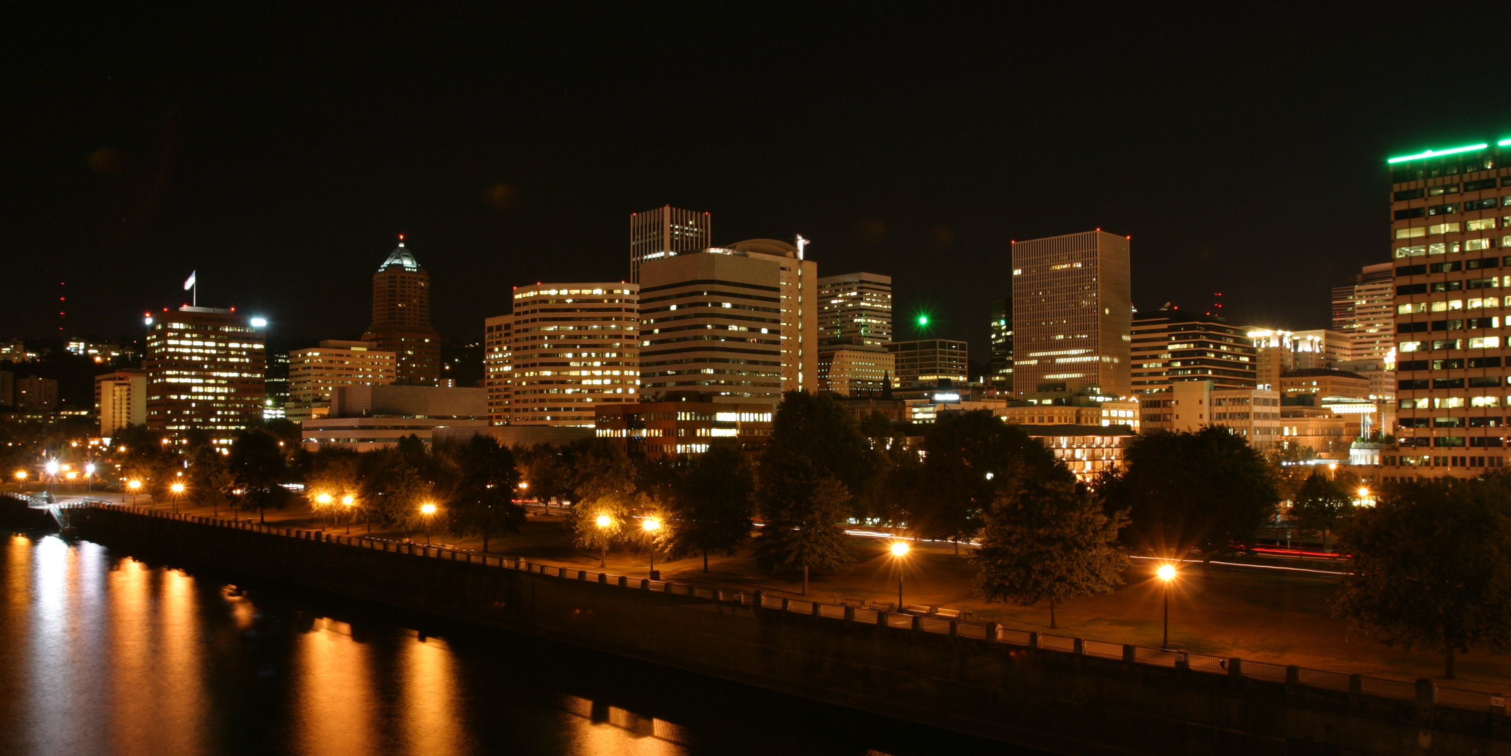 Governer Tom McCall Waterfront Park in Portland, Oregon.